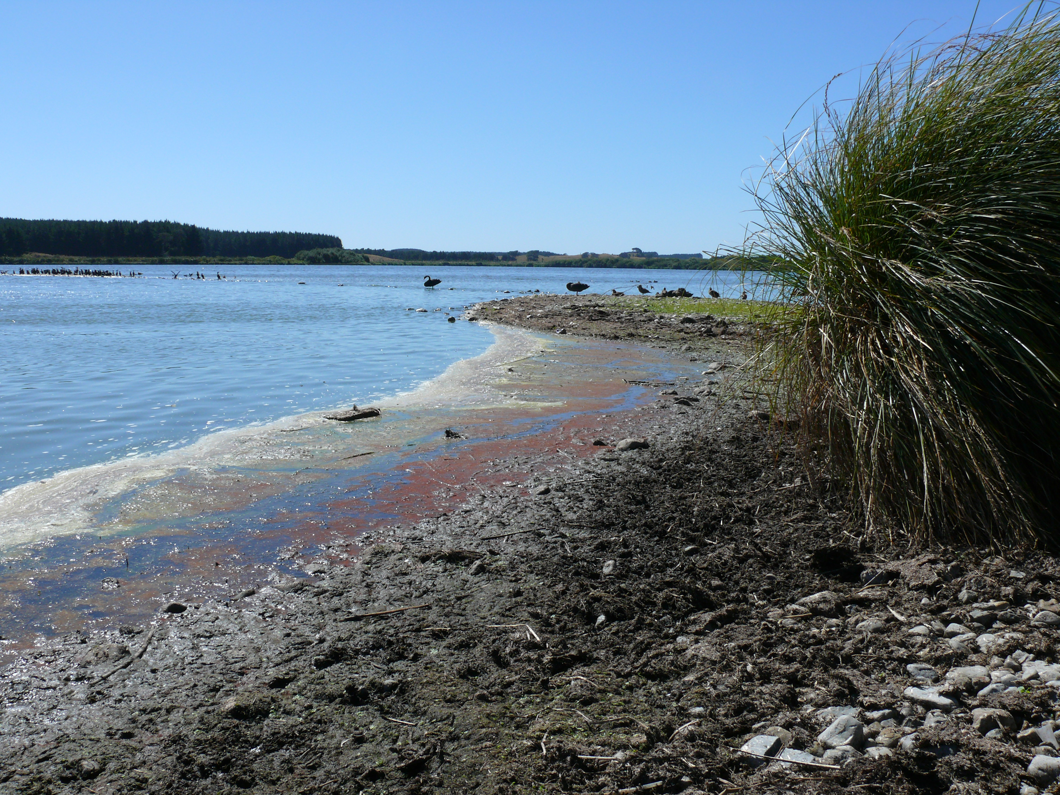 Lake Horowhenua shore, Manawatu, New Zealand.